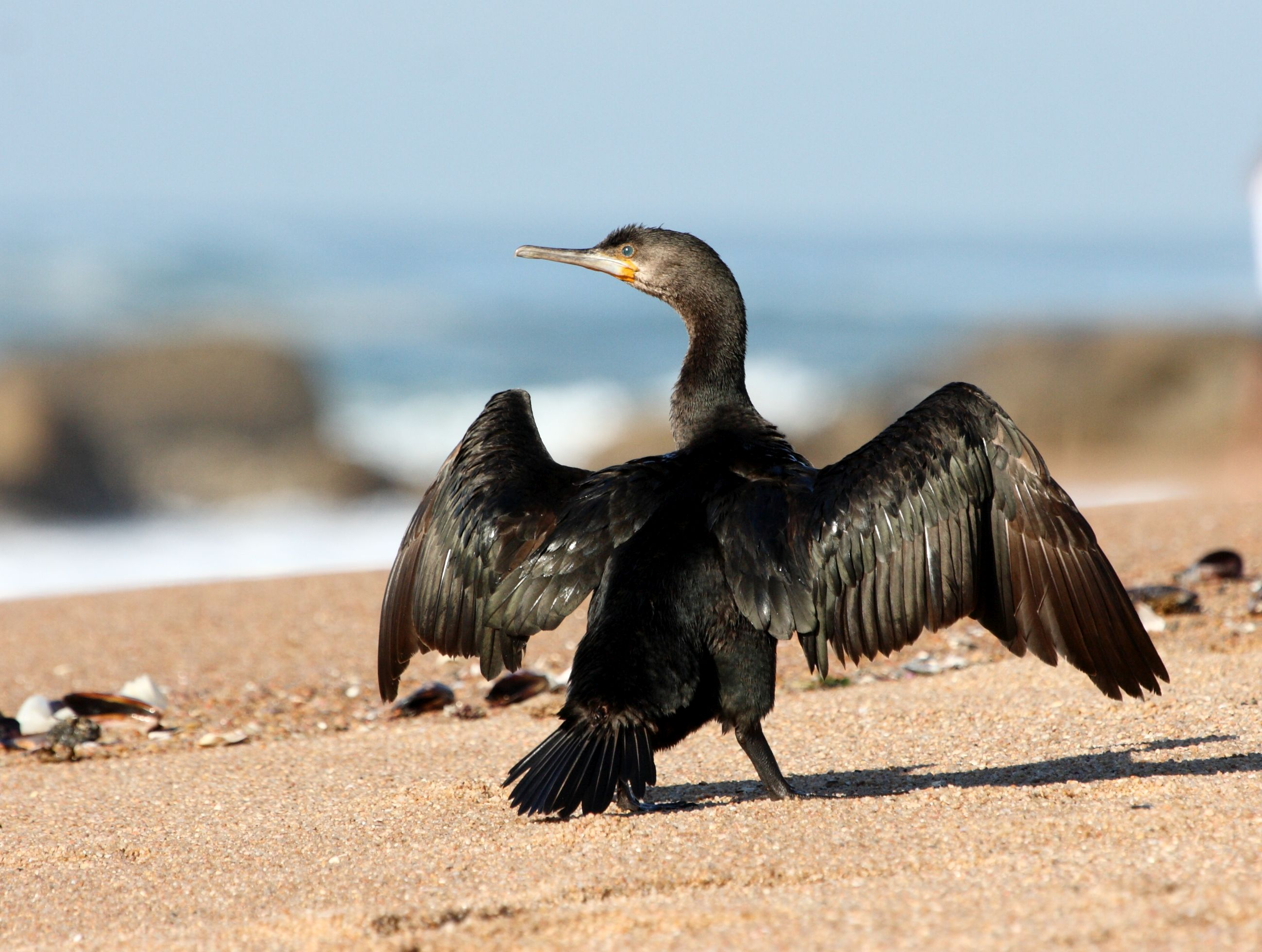 Cape cormorant Phalacrocorax capensis on uMhlanga beach, KwaZulu-Natal.